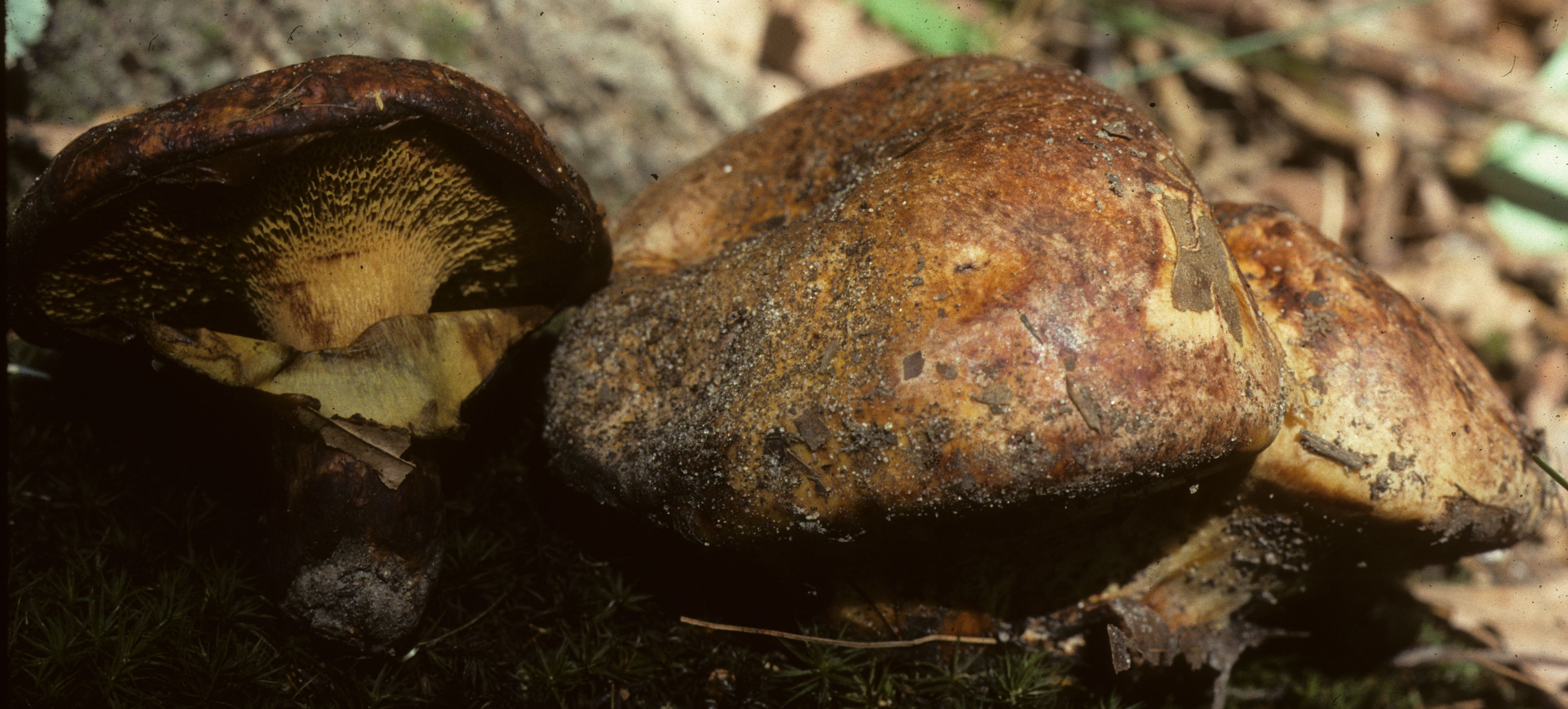 The mushroom Paragyrodon sphaerosporus. Specimen photographed in Waterloo Recreation Area, Michigan.